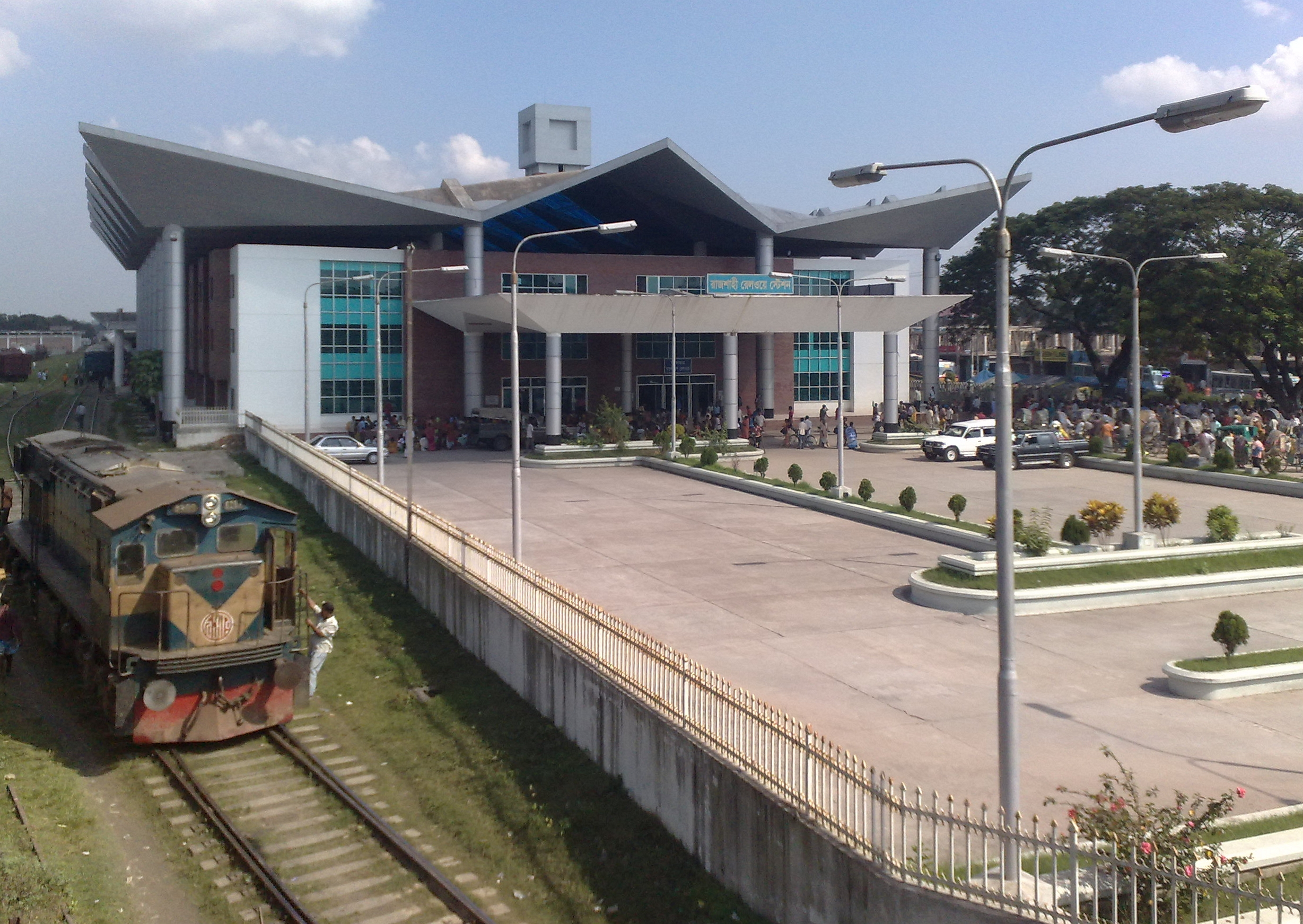 Photo of Rajshahi Railway Station taken from the overbridge infront of the station.